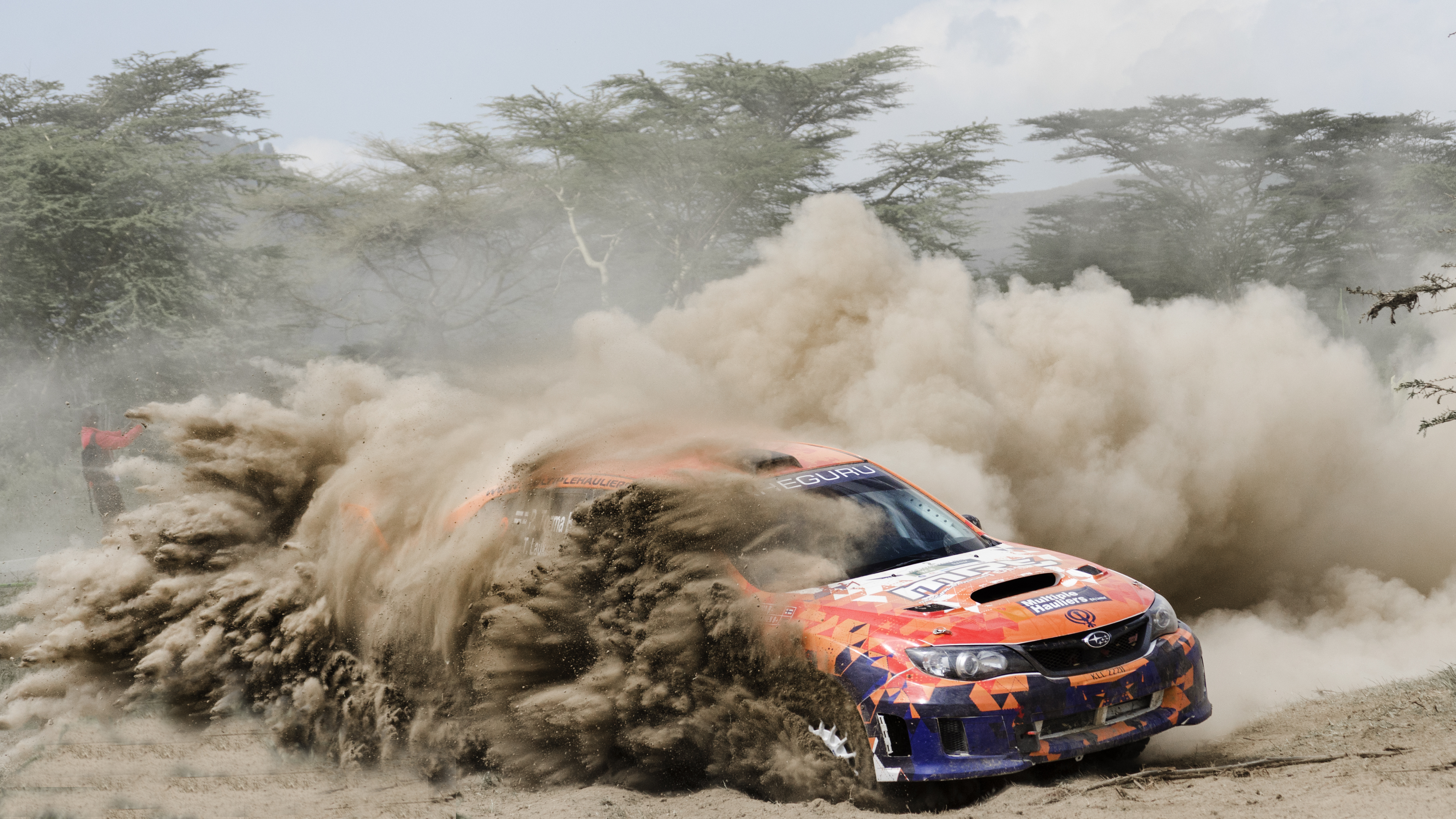 This is an image with the theme "Play" from: Kenya